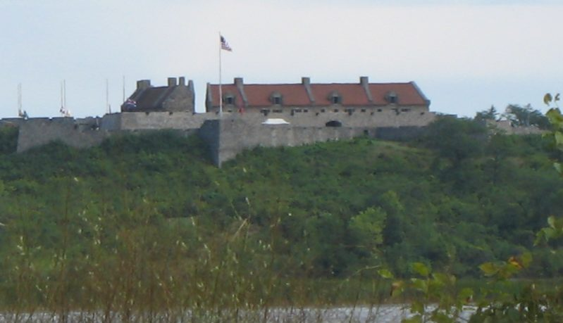 Photograph of Fort Ticonderoga, August 2006